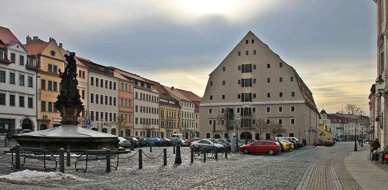 Zittau: Neustadt of Zittau with the Salt House (cultural heritage monument).